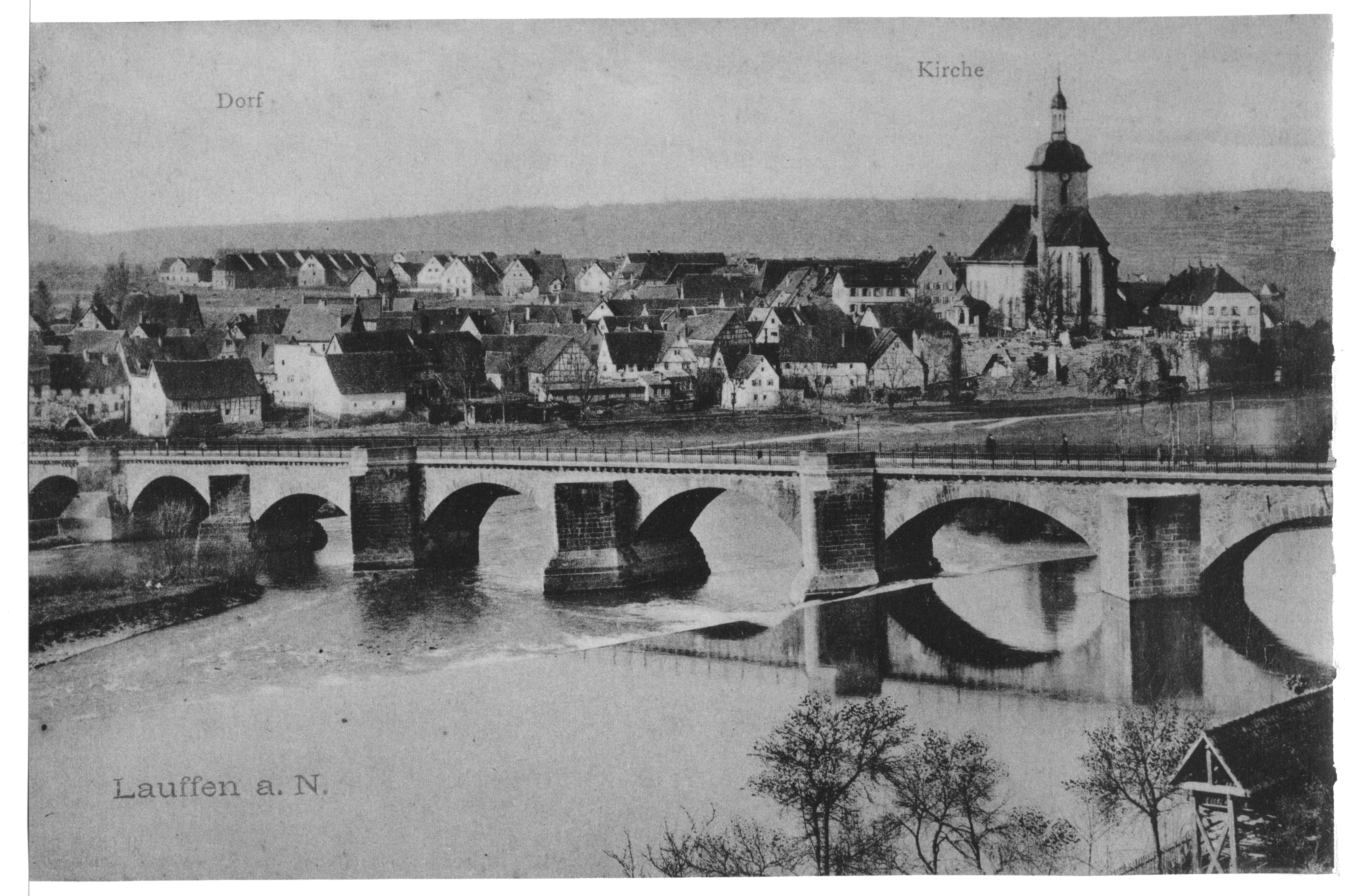 panoramic view of Lauffen am Neckar including the neckar bridge, church of St. Regiswindis and castle